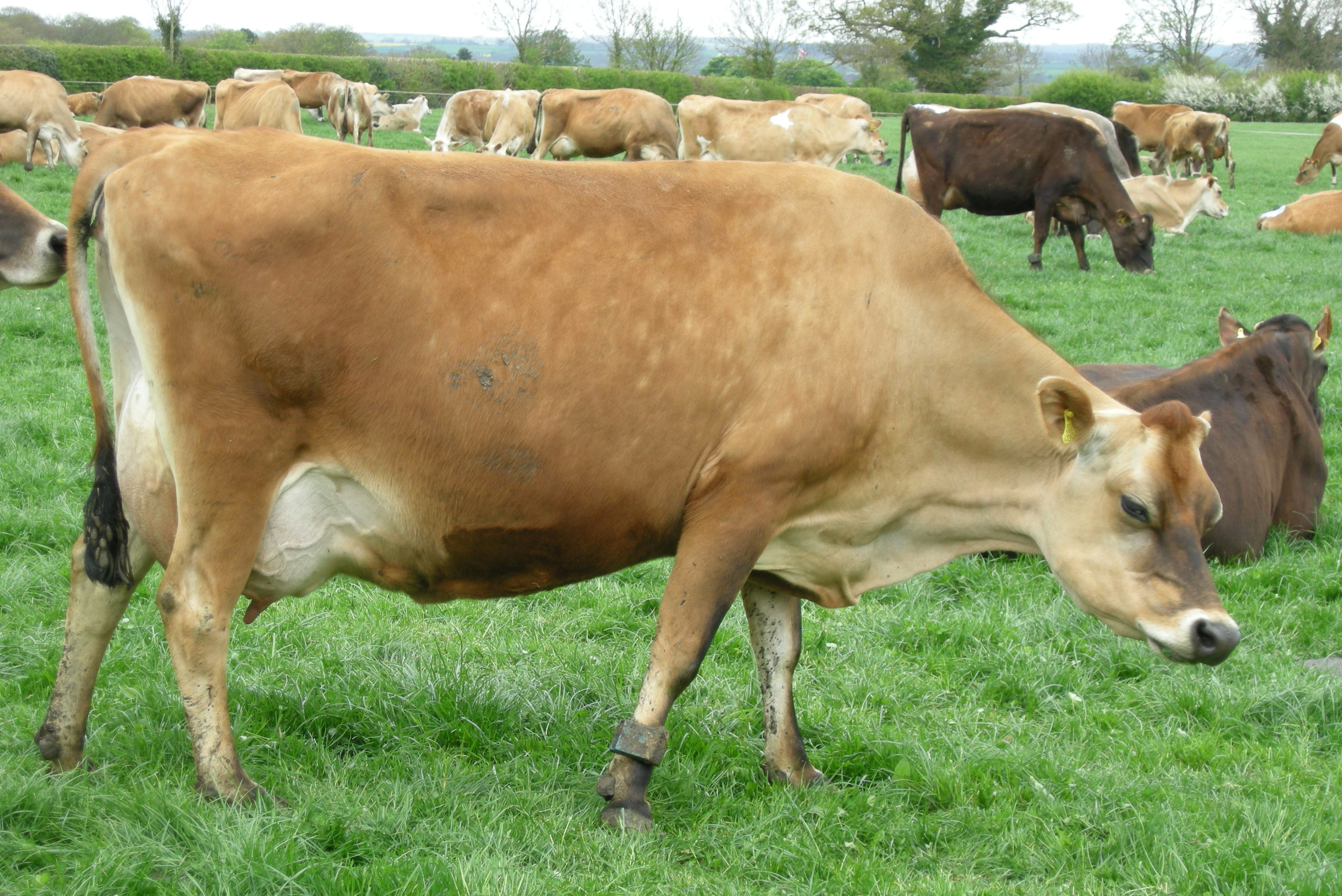 Jersey herd at New Moor Farm, Walworth Gate, County Durham, England, May 2010.